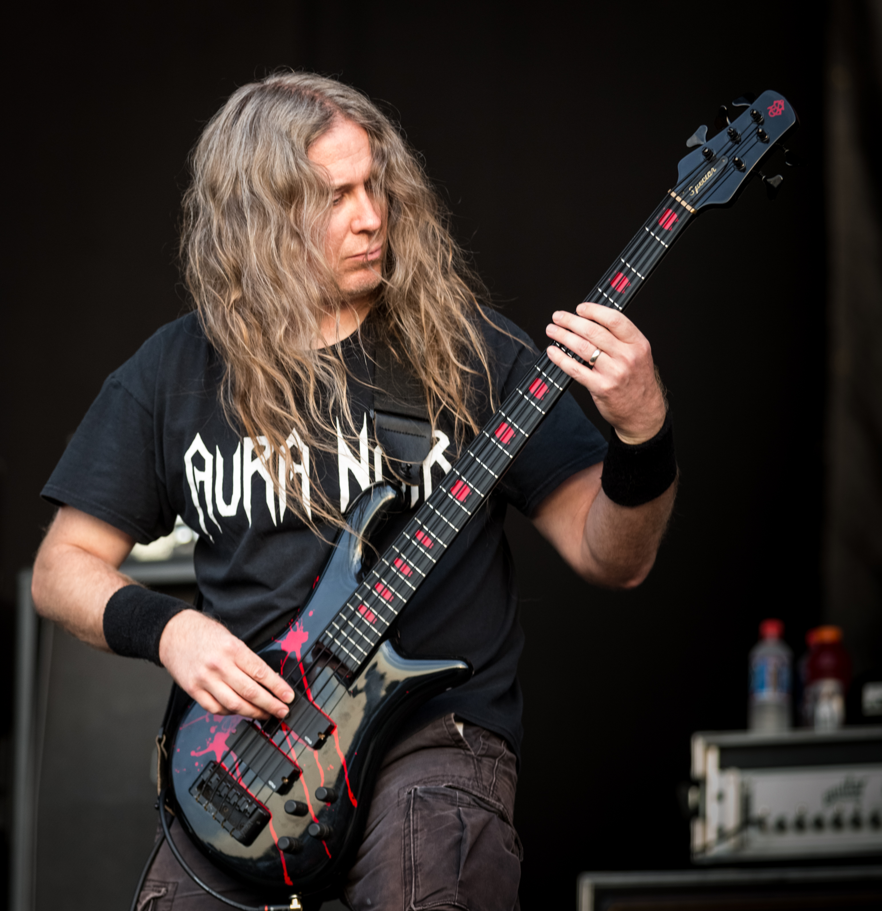 Cannibal Corpse - Wacken Open Air 2015